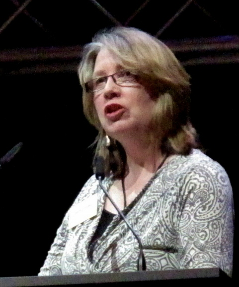 Anne Trefethen, Oxford Internet Institute (OII), speaking at 10th International Library Conference, Bielefeld, Germany